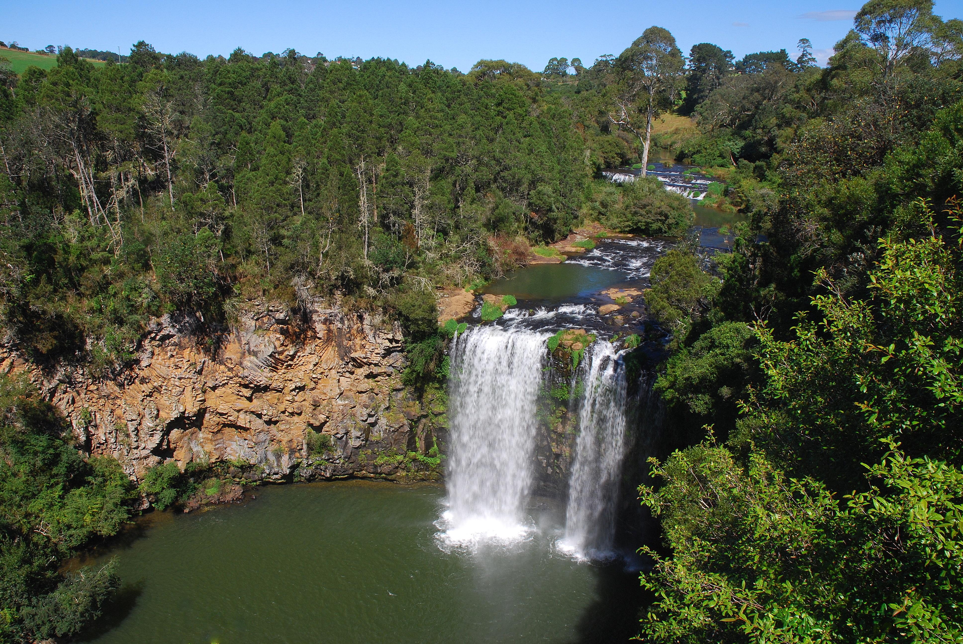 Dangar Falls at Dorrigo, NSW (Australia)